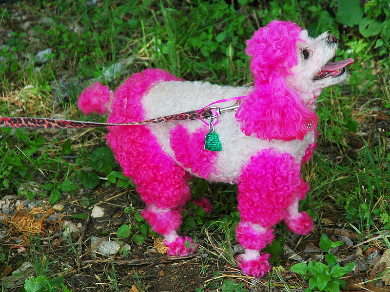 Purple & white poodle, Eeyore's Birthday Party 2008